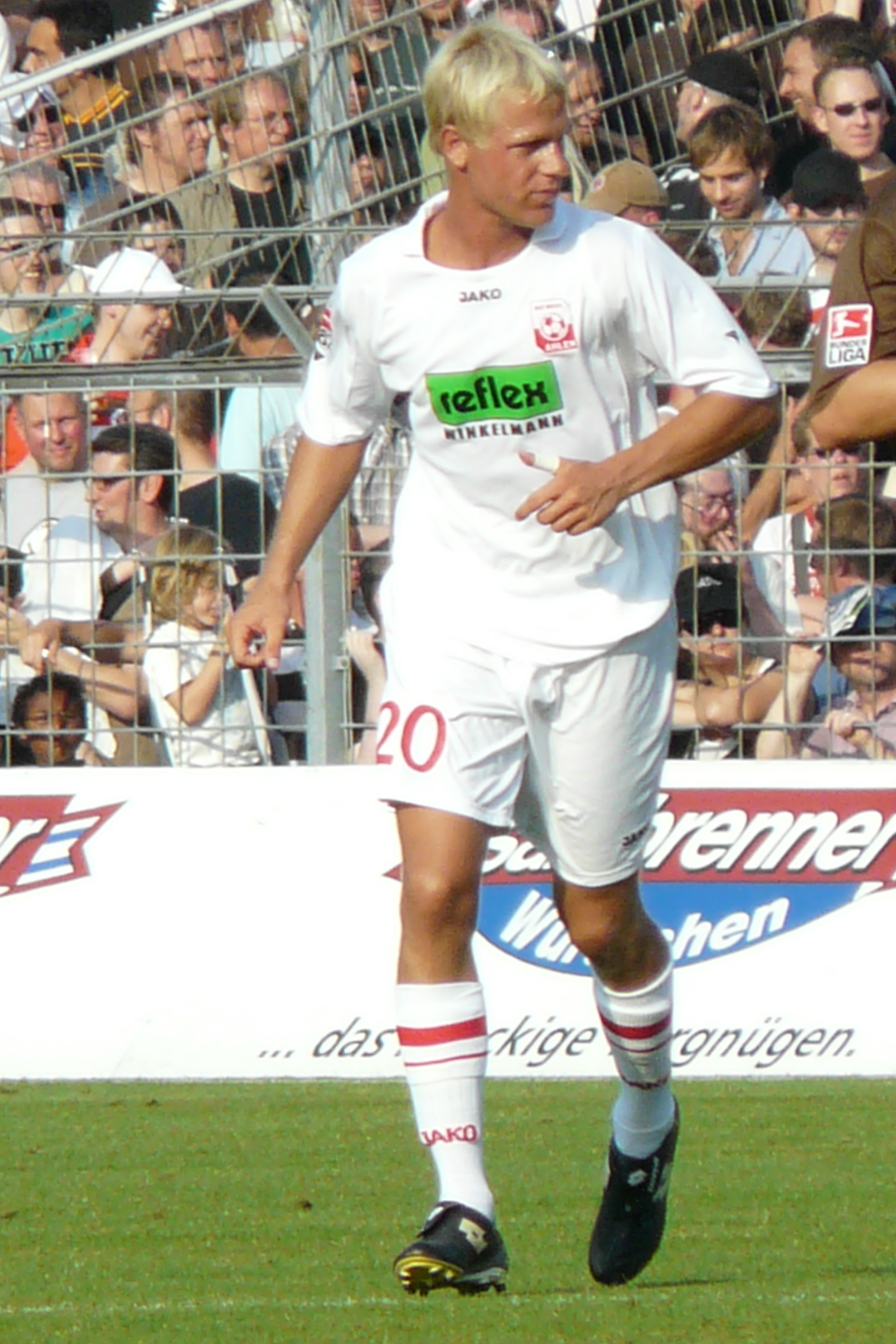 Michael Wiemann as Player from RW Ahlen